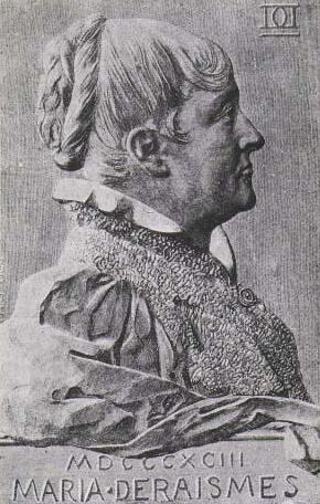 Maria Deraismes (1836-1894) – Sculpture